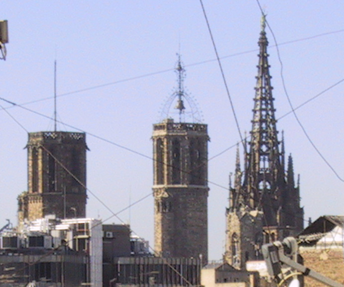 Cathedral of Barcelona towers